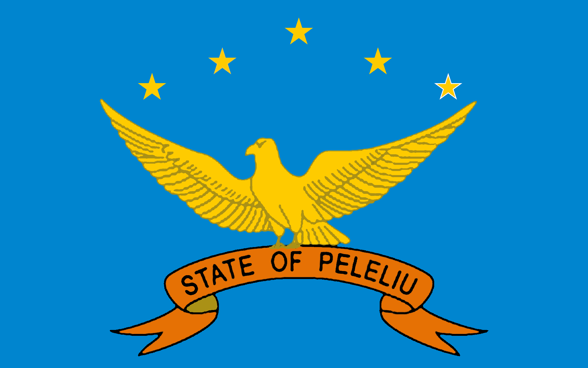 Flag of Peleliu State Palau